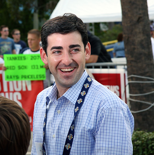 Picture from game 1 of the 2008 World Series. This is the President of the Rays, Matthew Silverman. © 2008 Robert D. Bruce All Rights Reserved.